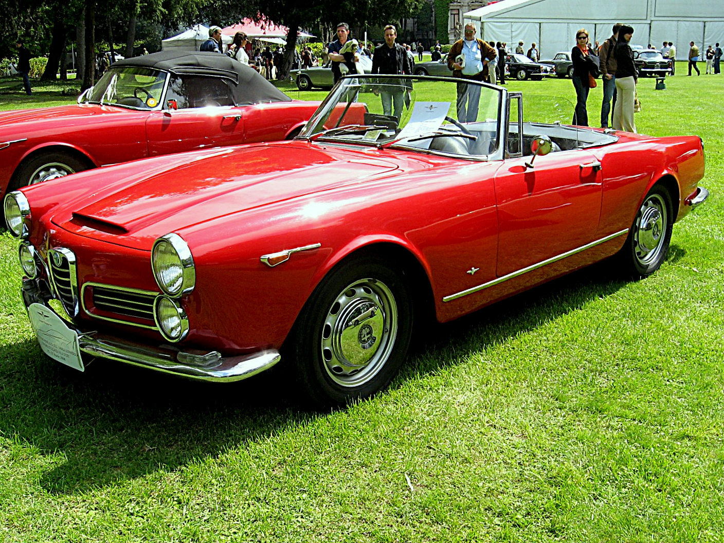 Subject:Alfa Romeo 2600 Spider Touring Date:April 27th, 2008 Event:Concorso d’Eleganza”Villa d’Este” 2008 Place/Country: Cernobbio (CO), Italy I release all rights in the public domain.